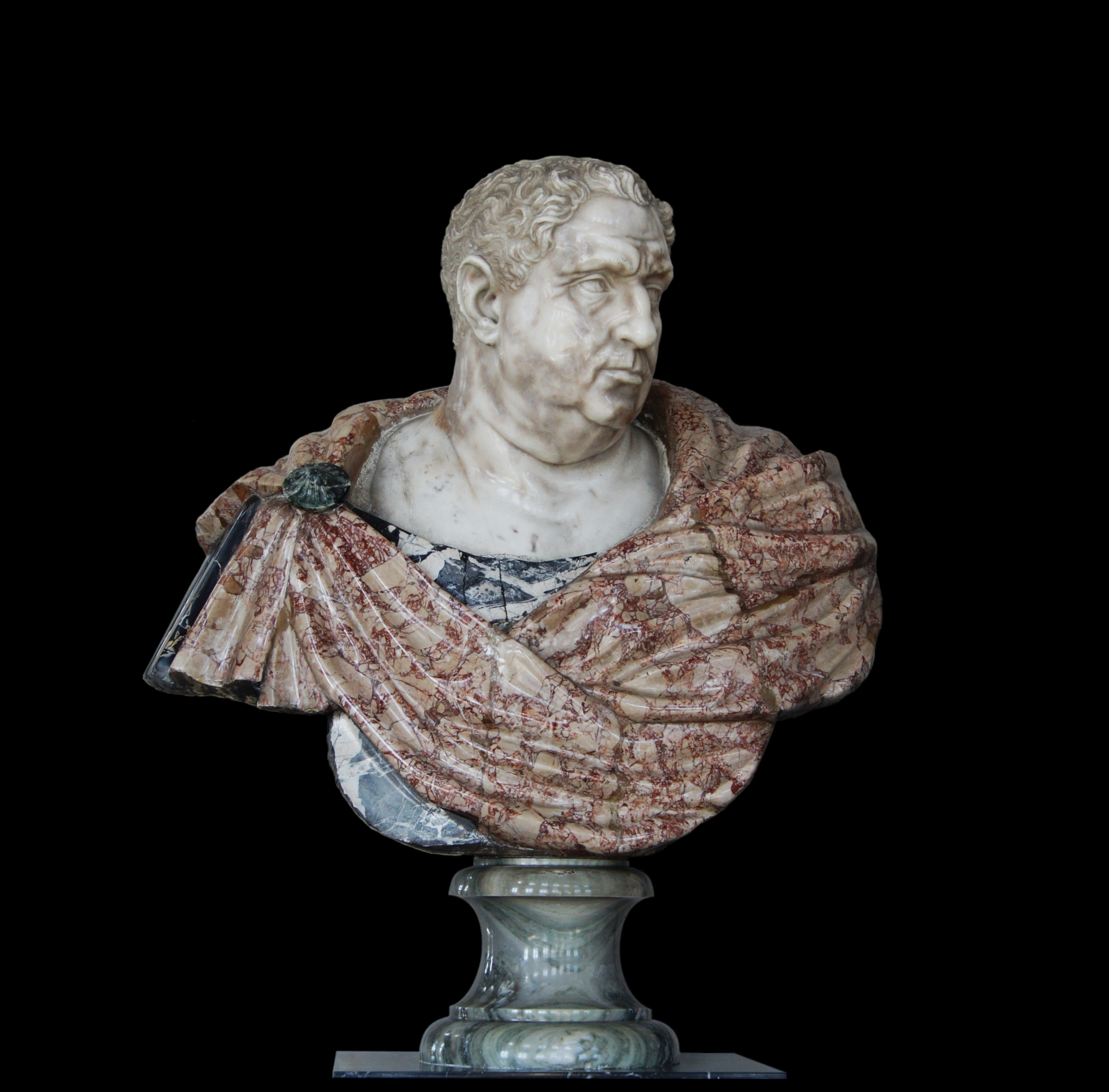 17th century marble bust, from Florence, Italy, of Vespasian, (9-79), first roman emperor of the flavian dynasty, on display at Château de Vaux le Vicomte, France